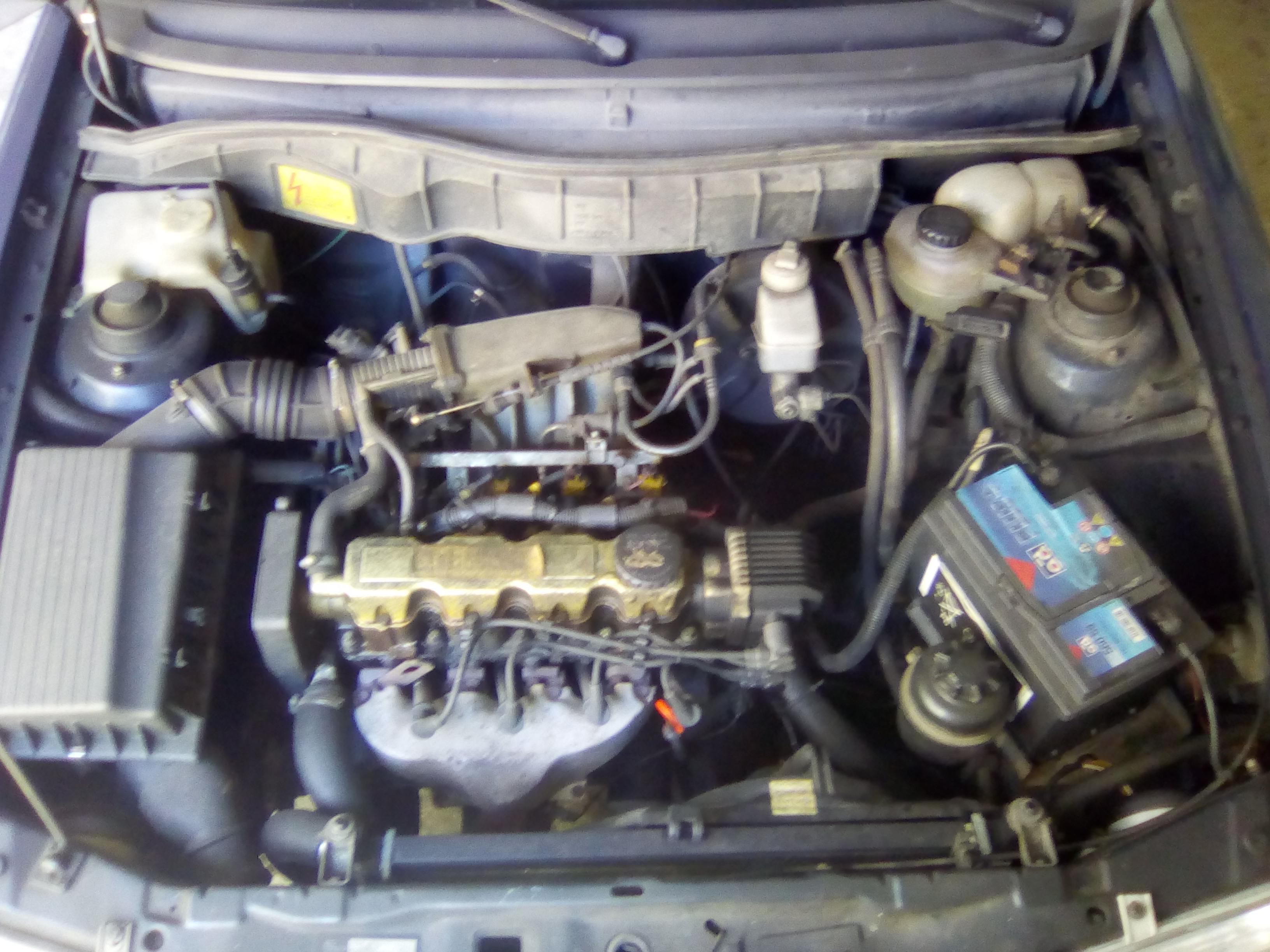 Opel Astra Engine 1.6, 1992